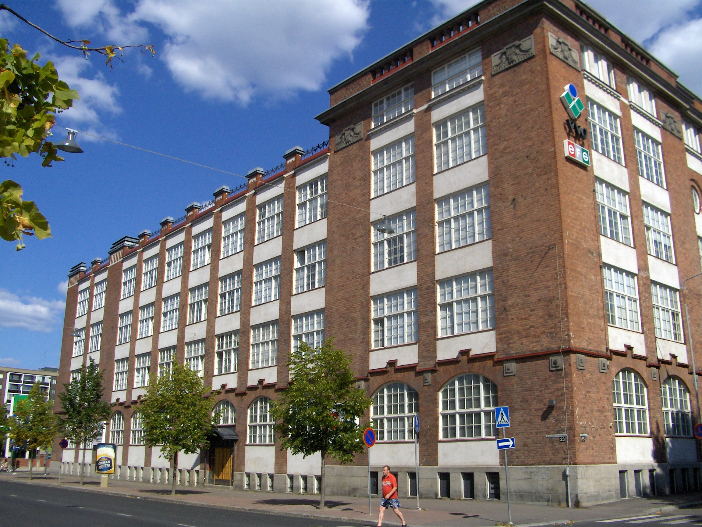 Former Aaltonen shoe factory in Tammela, Tampere, Finland.